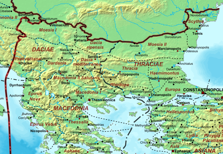 Map of the Roman Empire ca. 400 AD, showing the administrative division into dioceses and provinces, as well as the major cities. The demarcation between Eastern and Western Empires is noted in red.